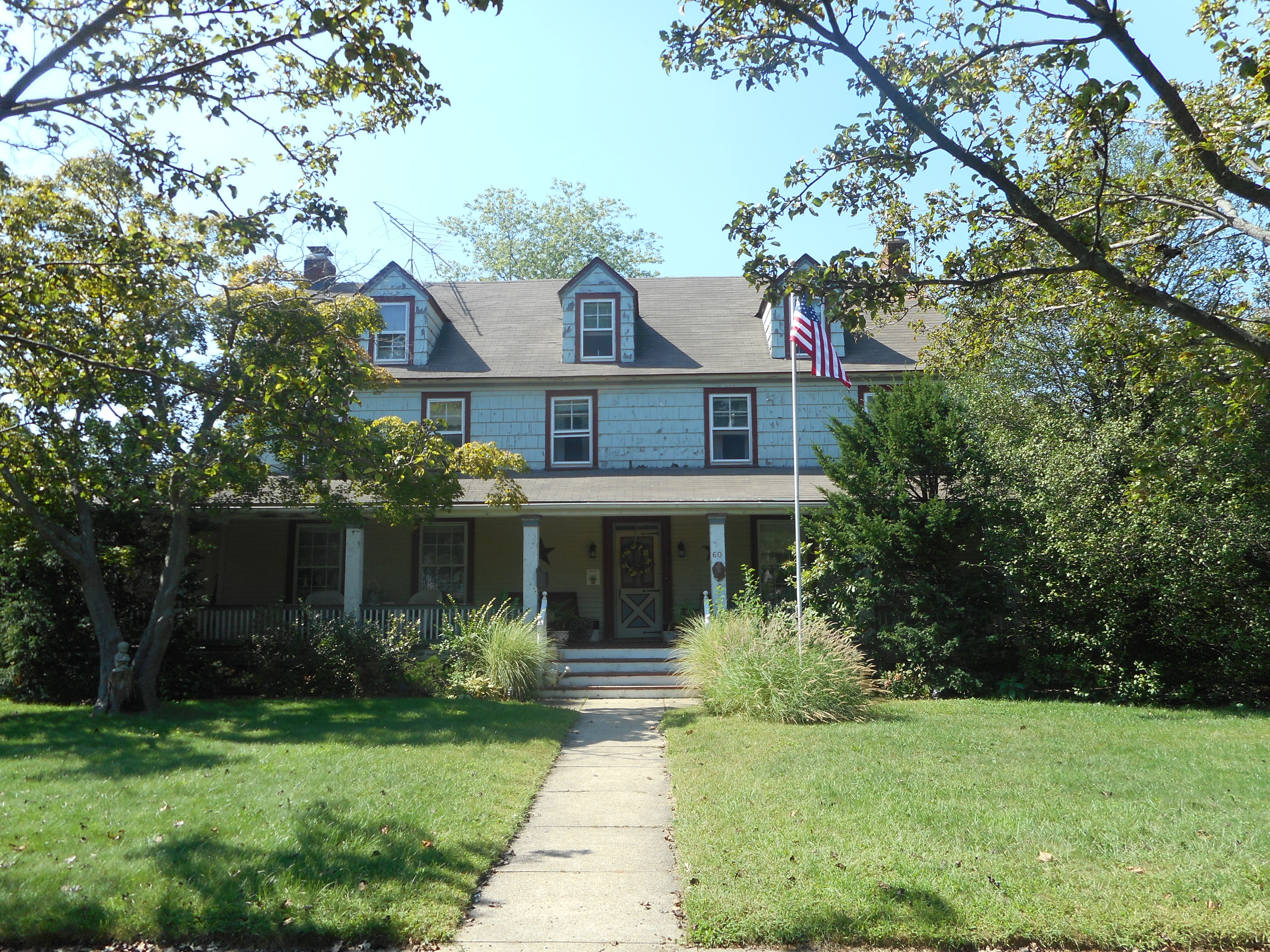 Front view of the historic Denton Homestead in East Rockaway, New York. Further details to come later.